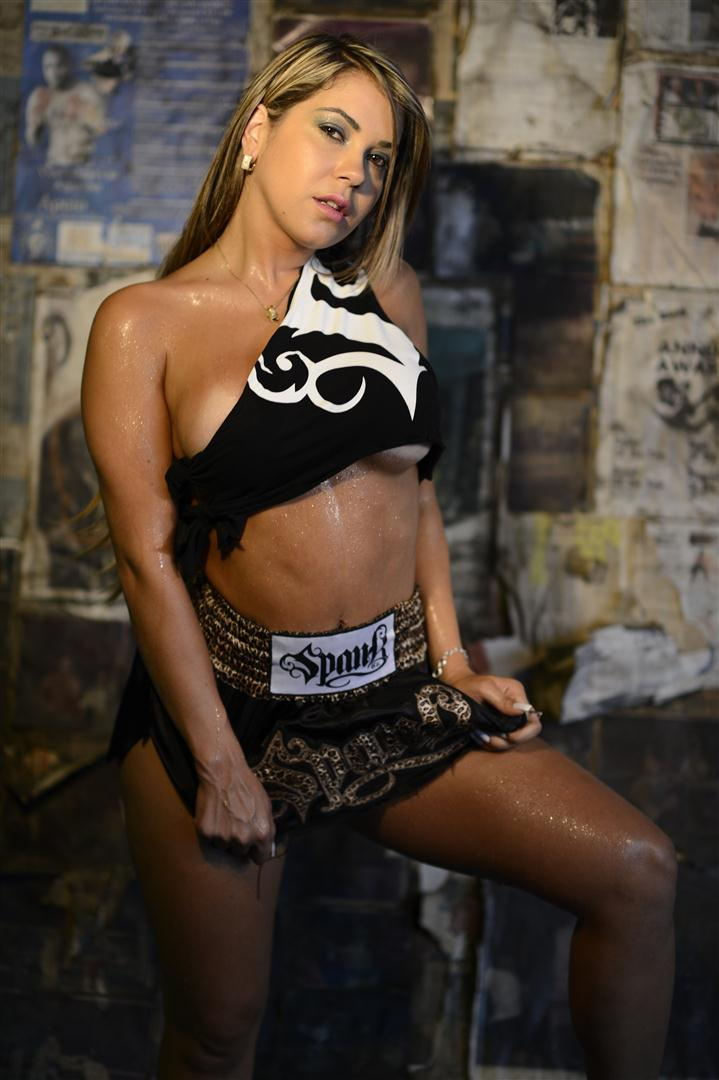 Gilmara Jung